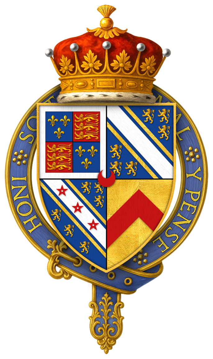 Coat of arms of Lord Henry Stafford, KG (later 1st Earl of Wiltshire) See Wiltshire's stall plate, still intact, within its original stall at St. George's Chapel. Arms are, quarterly: 1 and 4, France modern; 2 and 3, England; within a bordure argent.